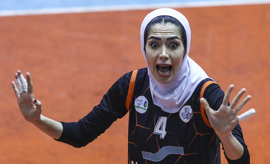 Iranian women volleyball league 2019. First week of the second round